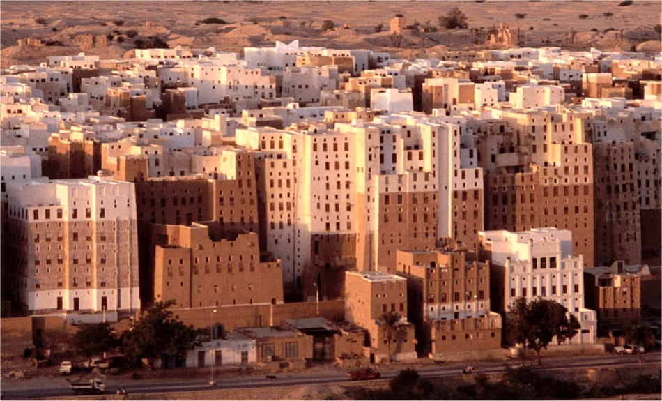 Shibam, Wadi Hadhramaut Yemen.